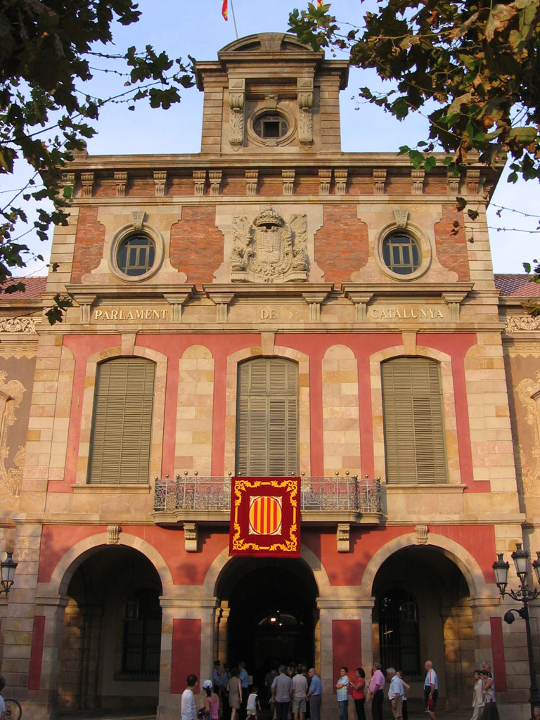 Main facade of the Parliament of Catalonia.